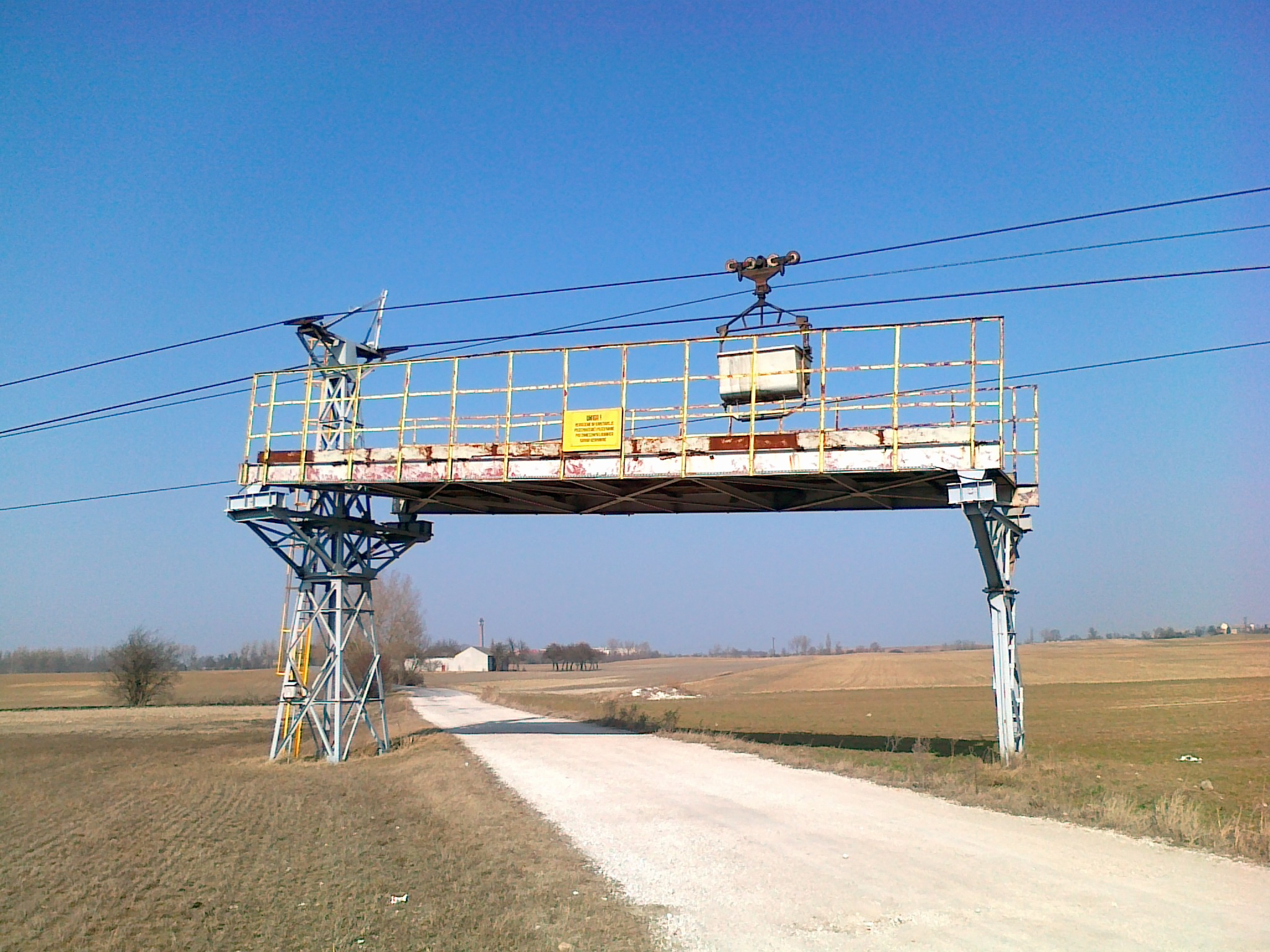 Kolej linowa Janikowo Piechcin